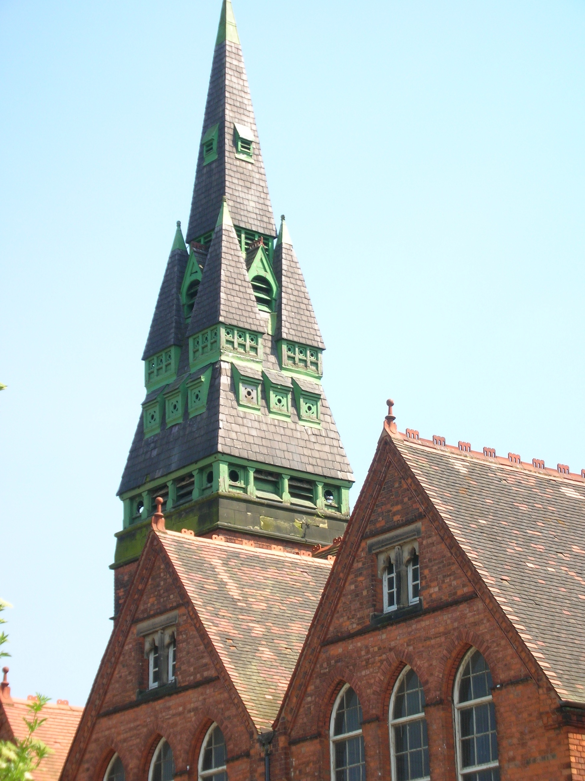 The tower of Icknield Street Board School, a Grade II* listed building in Hockley, Birmingham, England. 1883 by Martin & Chamberlain.